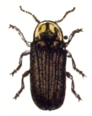 Lamprohiza splendidula, from Calwer's Käferbuch, Table 27, Picture 11. Taxonomy was updated to 2008, using mostly the sites Fauna Europaea and BioLib. Please contact Sarefo if the determination is wrong!